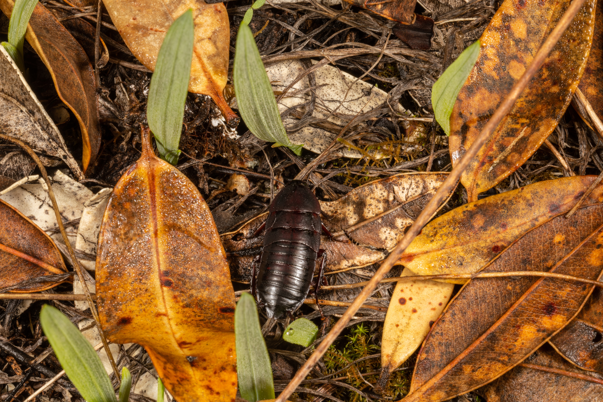 Large Black Kekerengu (Maoriblatta novaeseelandiae)